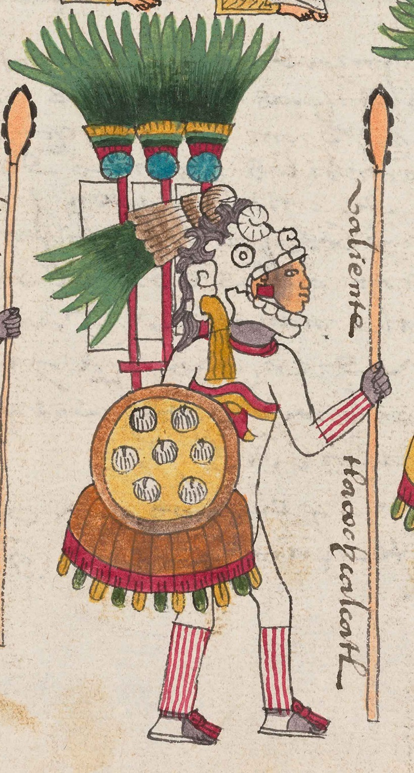 Picture of a tlacochcalcatl from Codex mendoza fol 67r. A slice of the full icture found at wikicommons.